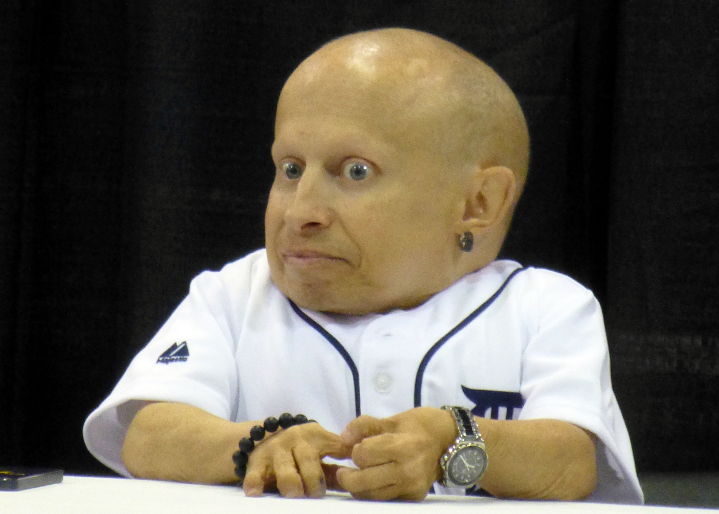 Verne Troyer at Wizard World Chicago in 2013